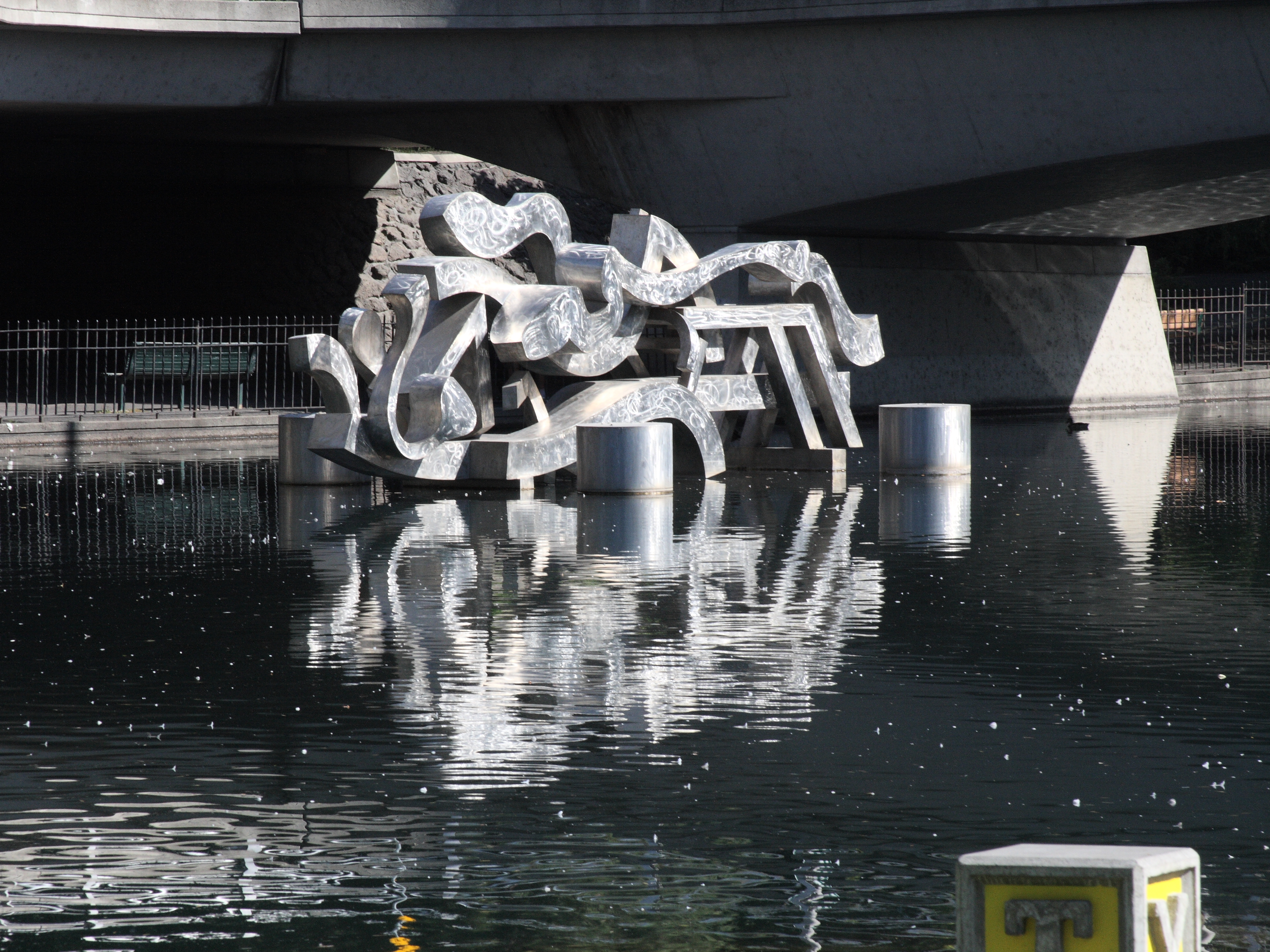 The Centennial Sculpture was created by Spokane artist Harold Balazs in 1978. The abstract aluminum sculpture floats, tethered, in the Spokane River in Riverfront Park. It was dedicated in 1981 to celebrate the City of Spokane's centennial.